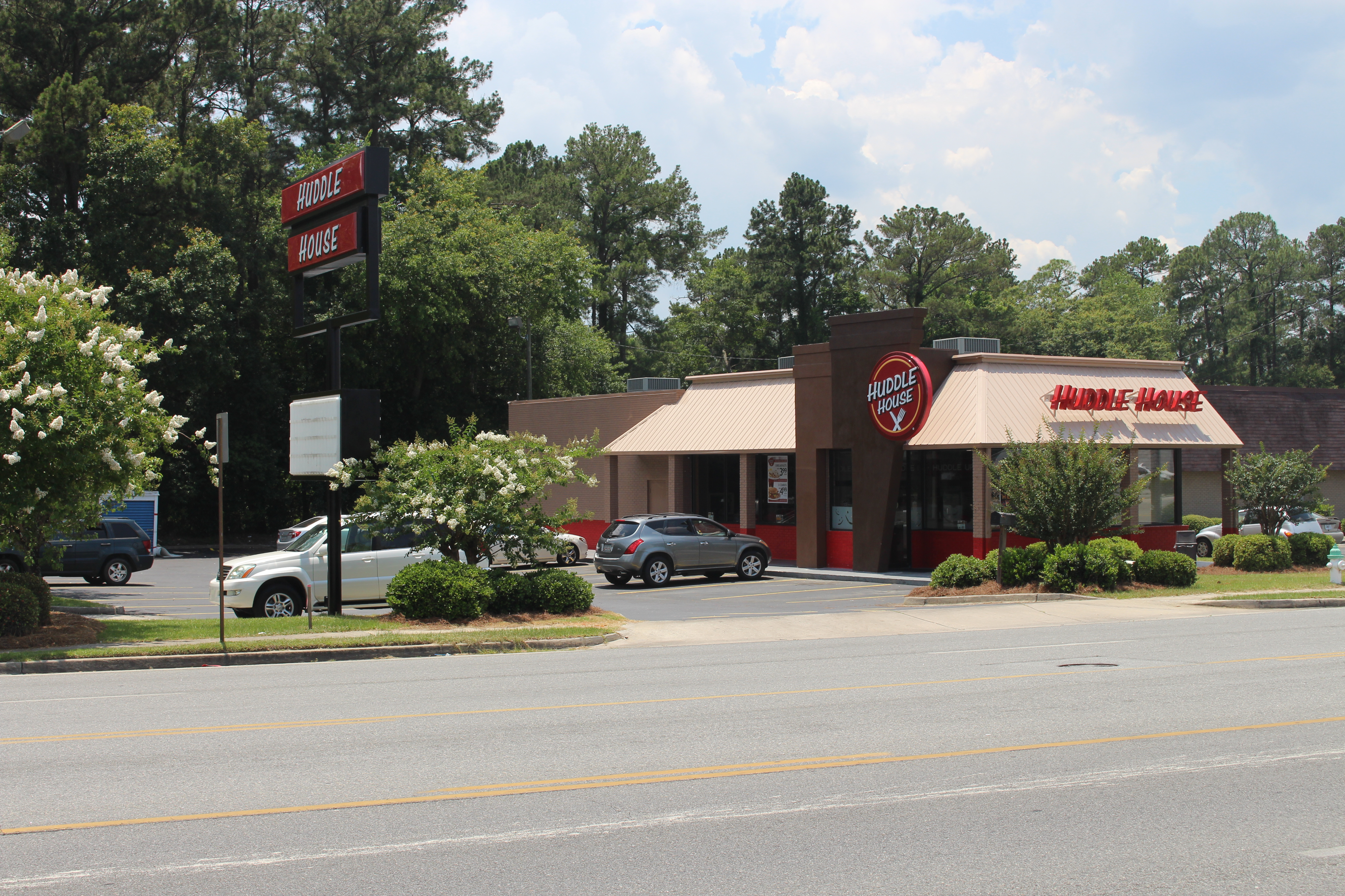 Huddle House, Valdosta, Lowndes County, Georgia. The outside of this location was remodeled in May, 2016.